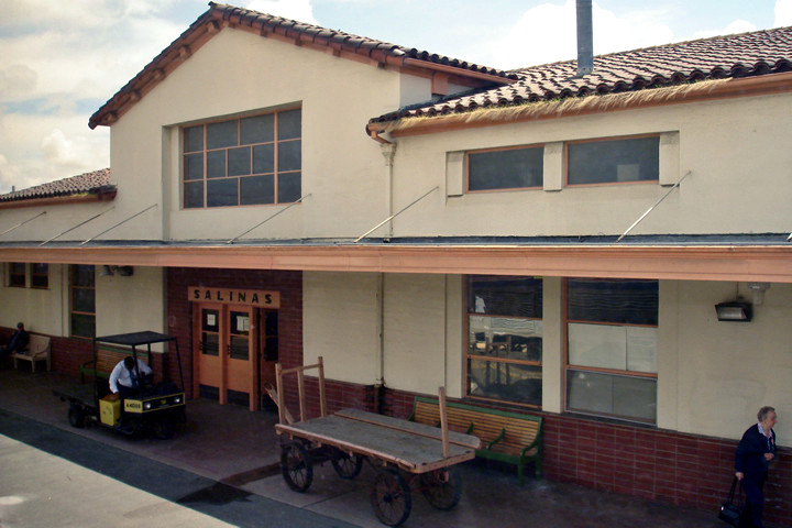 View of Salinas Station taken from the train